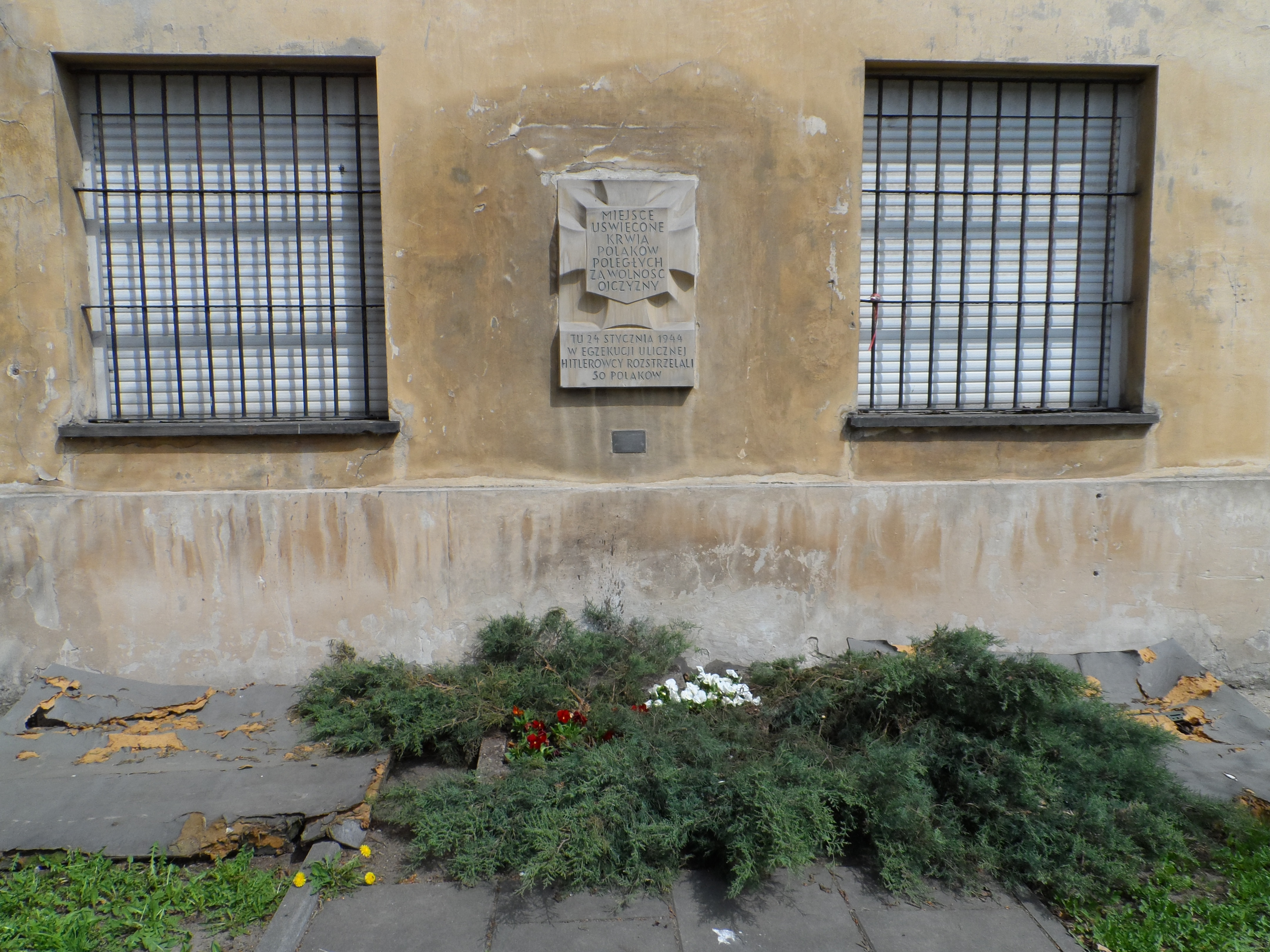 Plaque at Jana Kilińskiego Street in Warsaw (Raczyński Palace, near the corner of Długa Street), commemorating about 50 Polish hostages murdered in this place by Nazi-Germans in street execution in January 1944. Inscription at the plaque informs that execution took place on 24th January 1944. In fact it was conducted the day before.